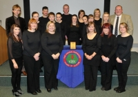 YFCU Choir Competition 2010 - Glarryford Choir